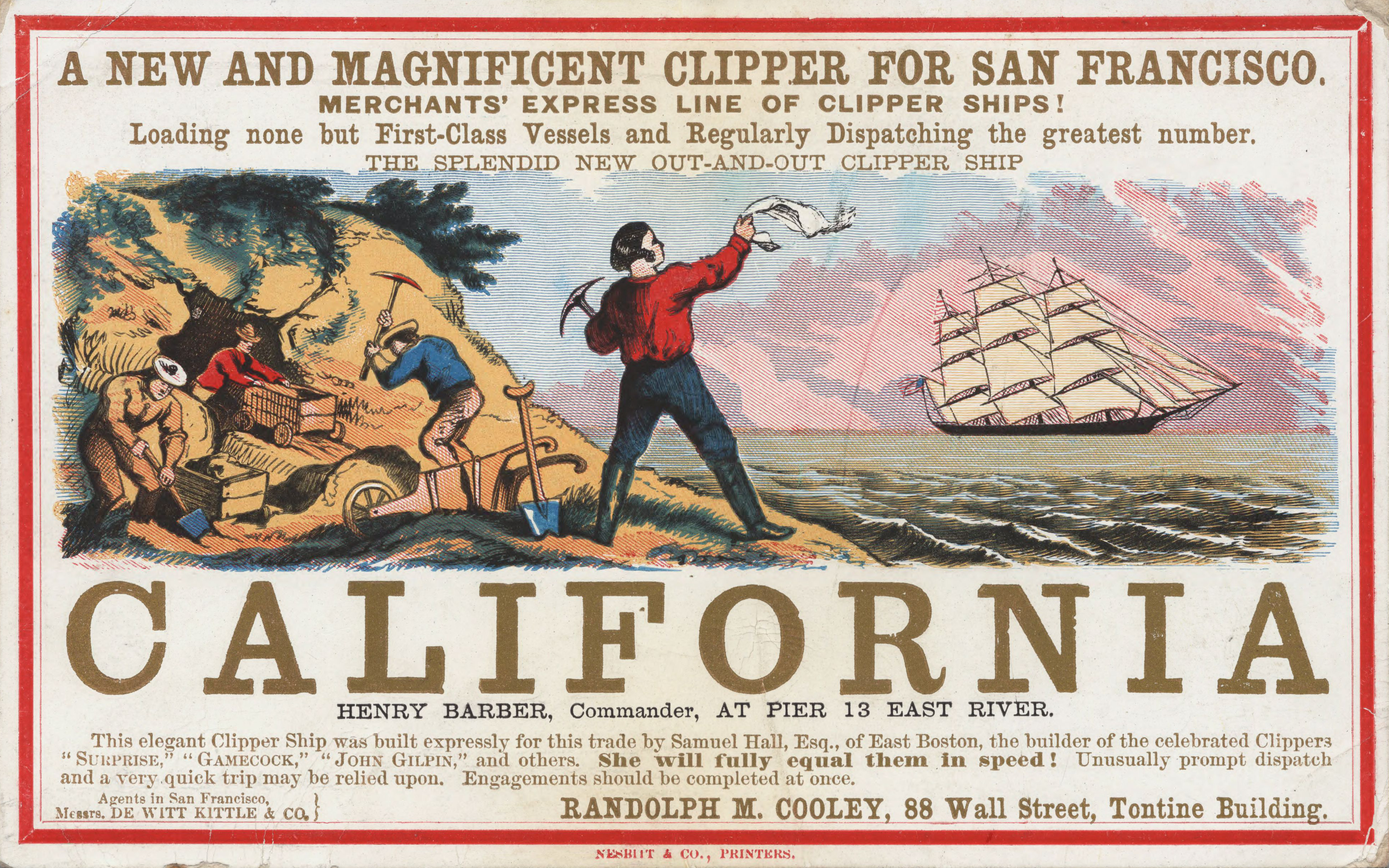 Sailing card for the clipper ship California, depicting scenes from the California gold rush. "A NEW AND MAGNIFICENT CLIPPER FOR SAN FRANCISCO. MERCHANT'S EXPRESS LINE OF CLIPPER SHIPS! Loading none but First-Class Vessels and Regularly Dispatching the great number. THE SPLENDID NEW OUT-AND-OUT CLIPPER SHIP CALIFORNIA, HENRY BARBER, Commander, AT PIER 13 EAST RIVER This elegant Clipper Ship was built expressly for this trade by Samuel Hall, Esq., of East Boston, the builder of the celebrated Clippers “SURPRISE,” “GAMECOCK,” “JOHN GILPIS,” and others, She will fully equal them in speed! Unusually prompt dispatch and very quick trip may be relied upon. Engagements should be completed at once. Agents in San Francisco. Msmmrs, DE WITT KITTLE & CO. RANDOLPH M. COOLEY, 88 Wall Street, Tontine Building".